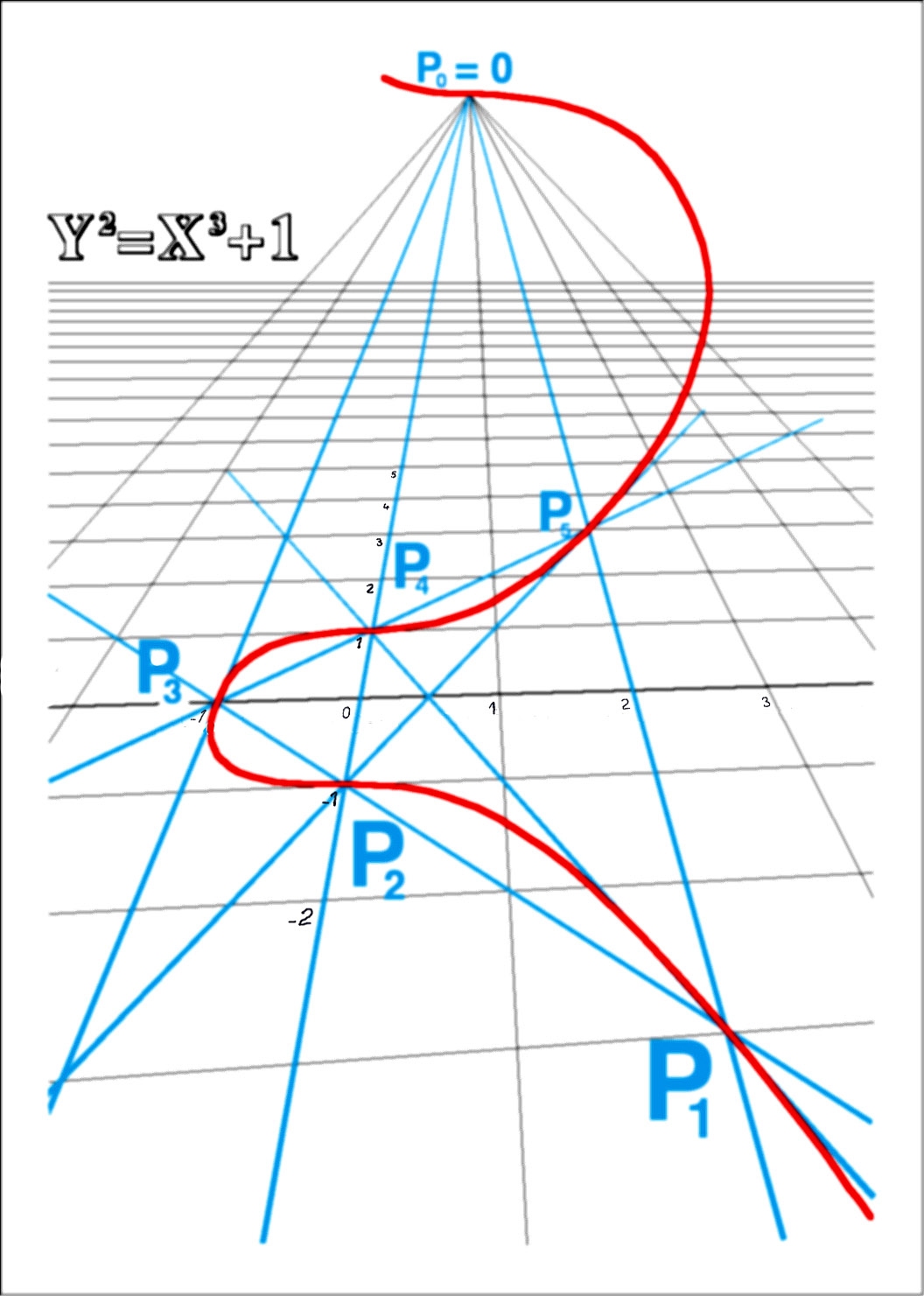 Torsion points on a cubic curve